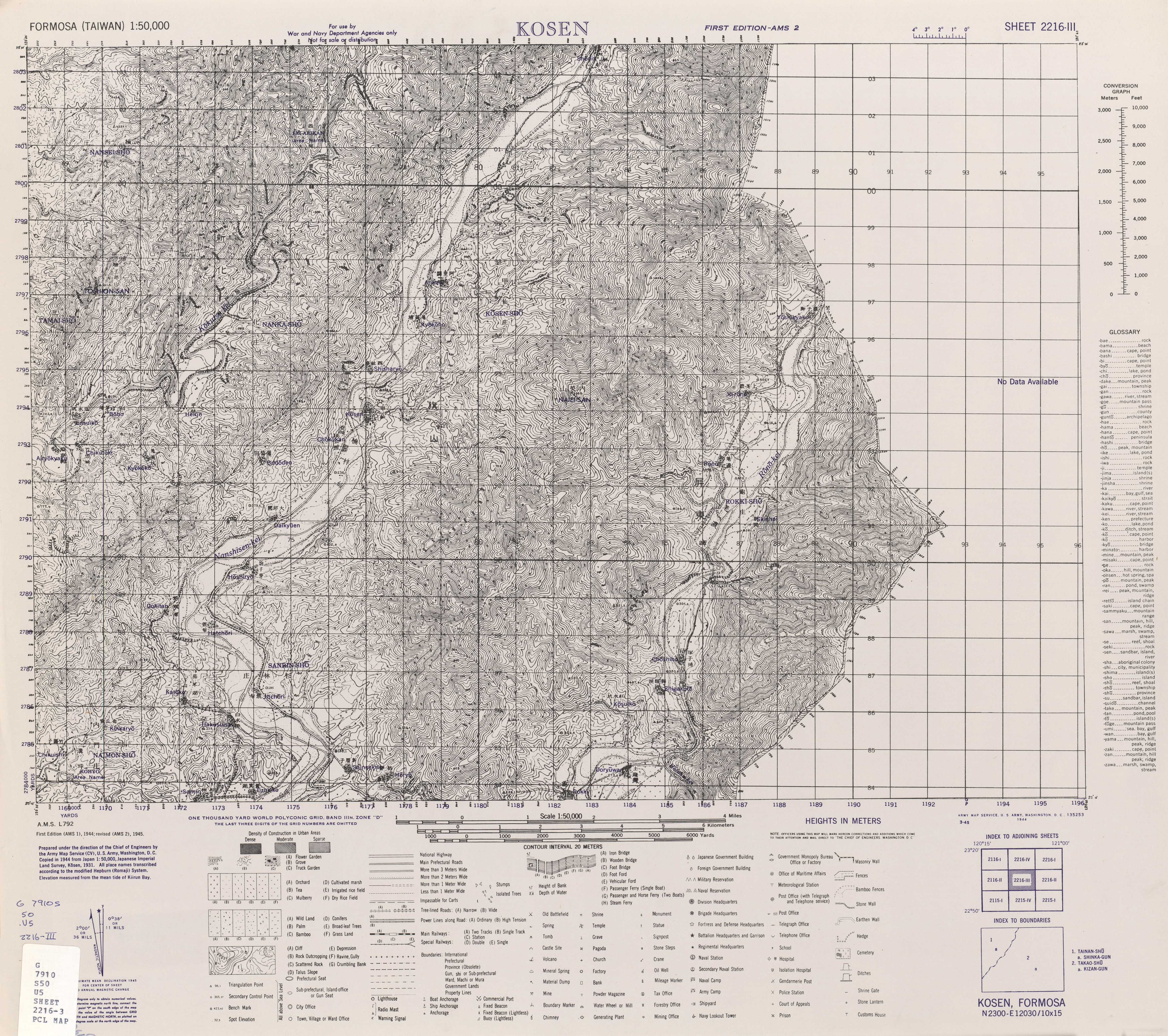 Map from Formosa (Taiwan) 1:50,000 AMS Series L792